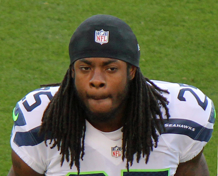 Richard Sherman, a National Football League player.